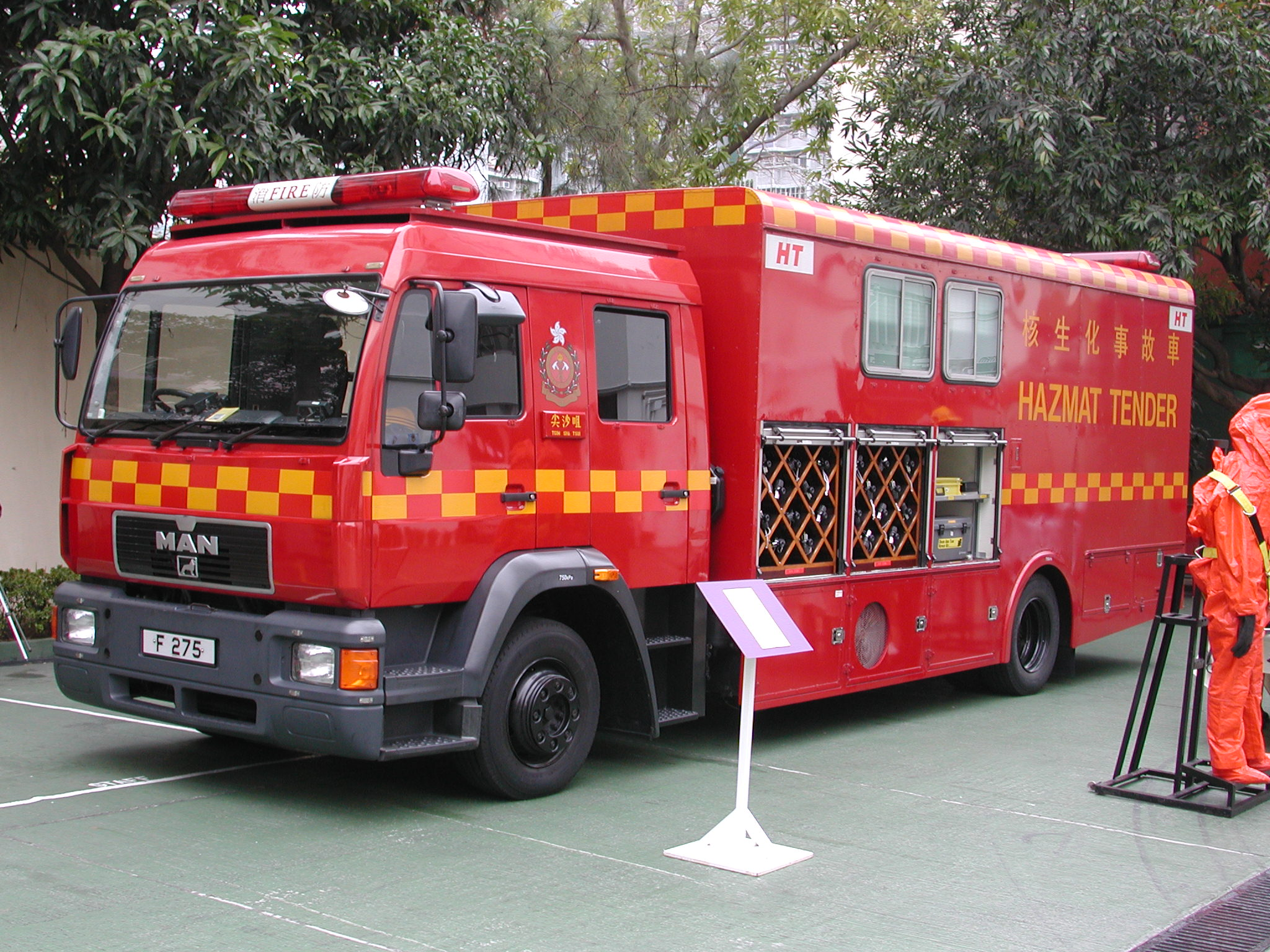 Hazmat Tender of Hong Kong Fire Services Department, Fire Vehicles No.F275. 中文（香港）: 香港消防處的核生化事故車，由一輛服役中的呼吸器供應車基本改裝而成，是全港唯一一輛專門處理核生化事故的消防行動車輛。